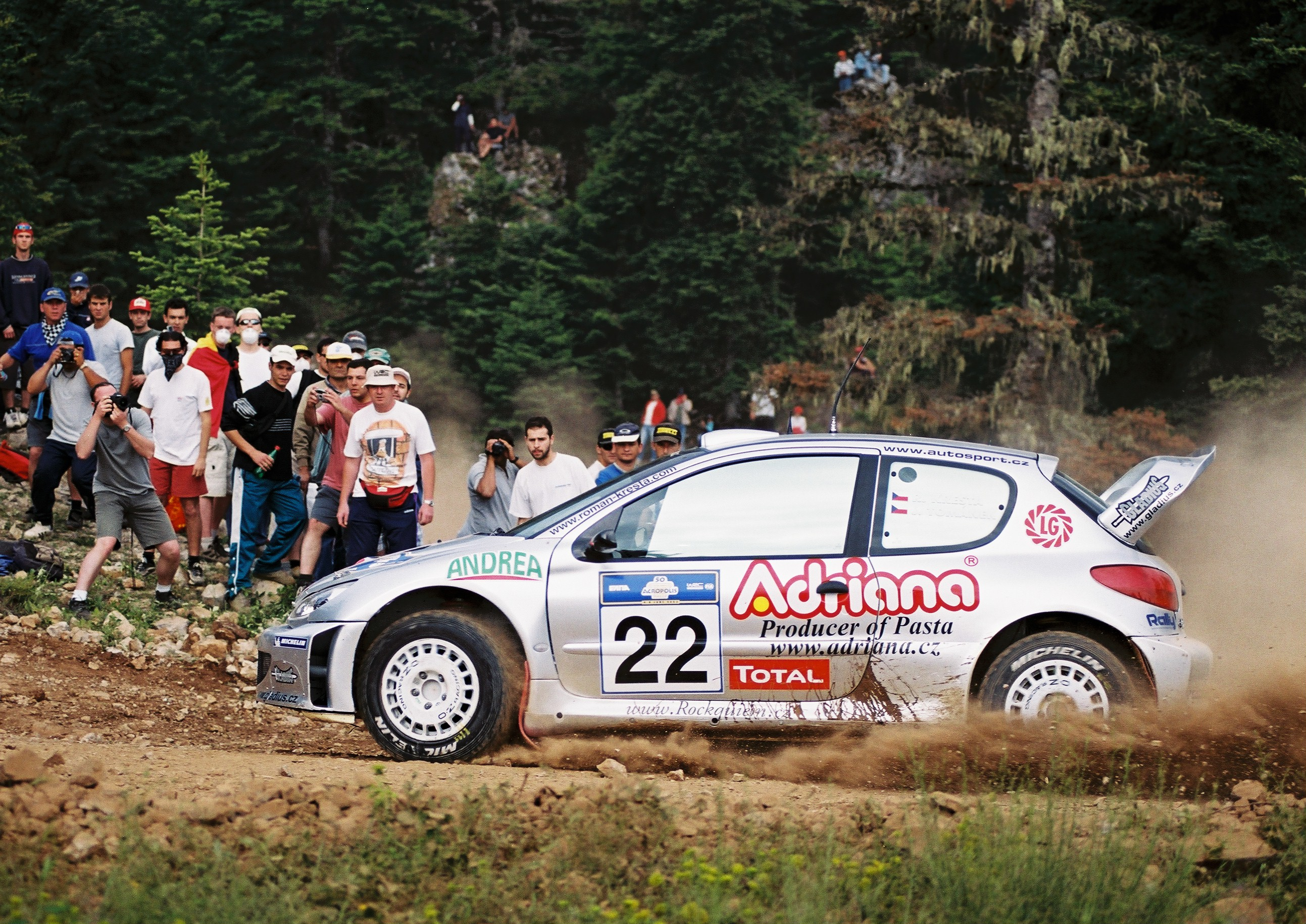 22 Roman Kresta and Miloš Hůlkain in 2003 Acropolis Rally (S.S. ?)